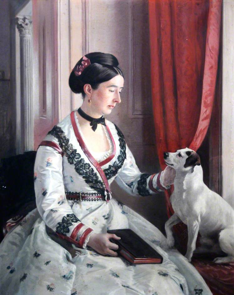 Portrait of Elizabeth, Lady Hickman, seated three-quarter length, in a white dress decorated with roses, holding a book and stroking her Jack Russell terrier by a window